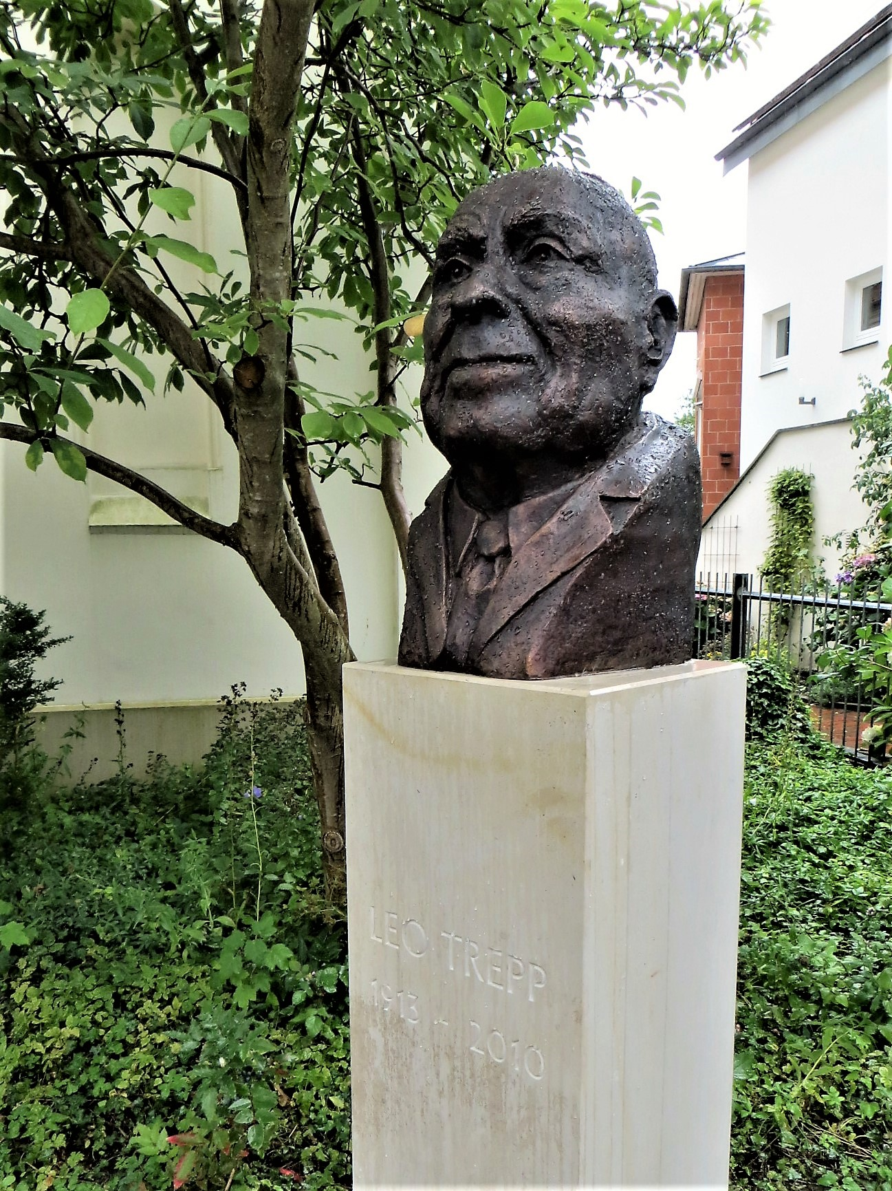 Portrait of the German-Born American Rabbi Leo Trepp at the synagogue in Oldenburg (Oldb), Lower Saxony, Germany